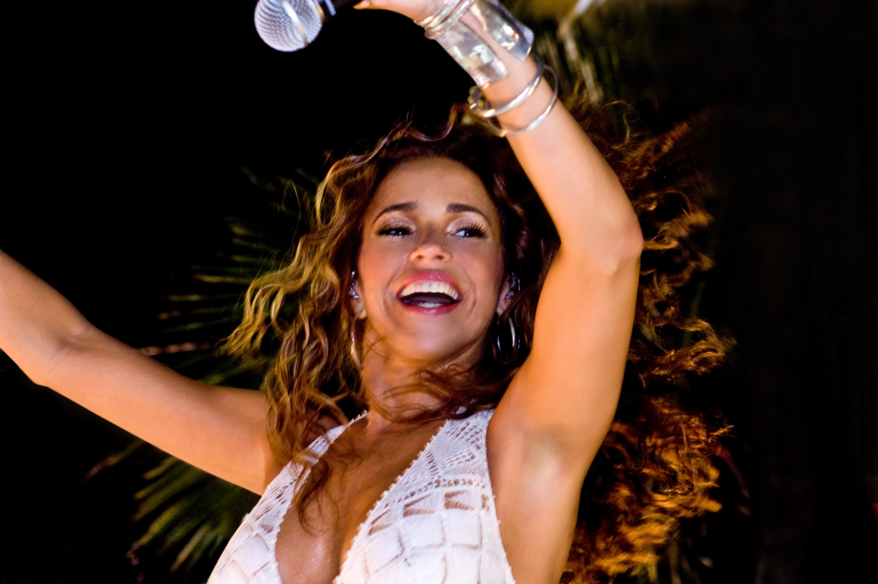 Daniela Mercury atop trio eletrico during carnaval in Salvador Bahia